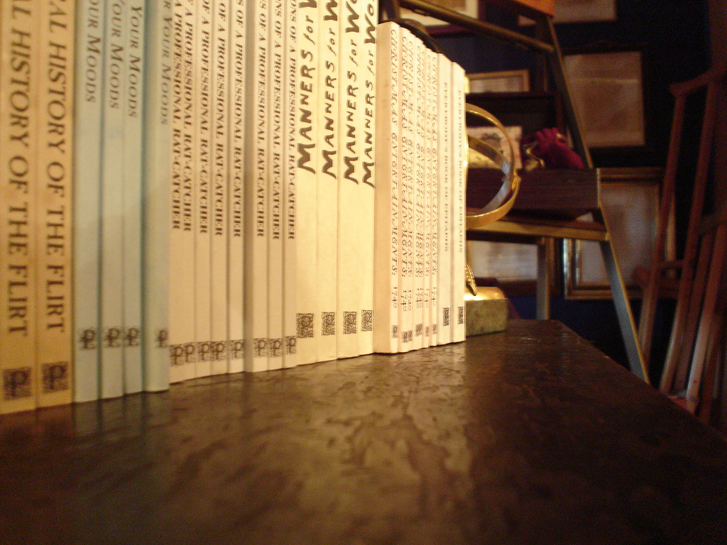 Picture of some books collaboratively written at 826 Valencia.